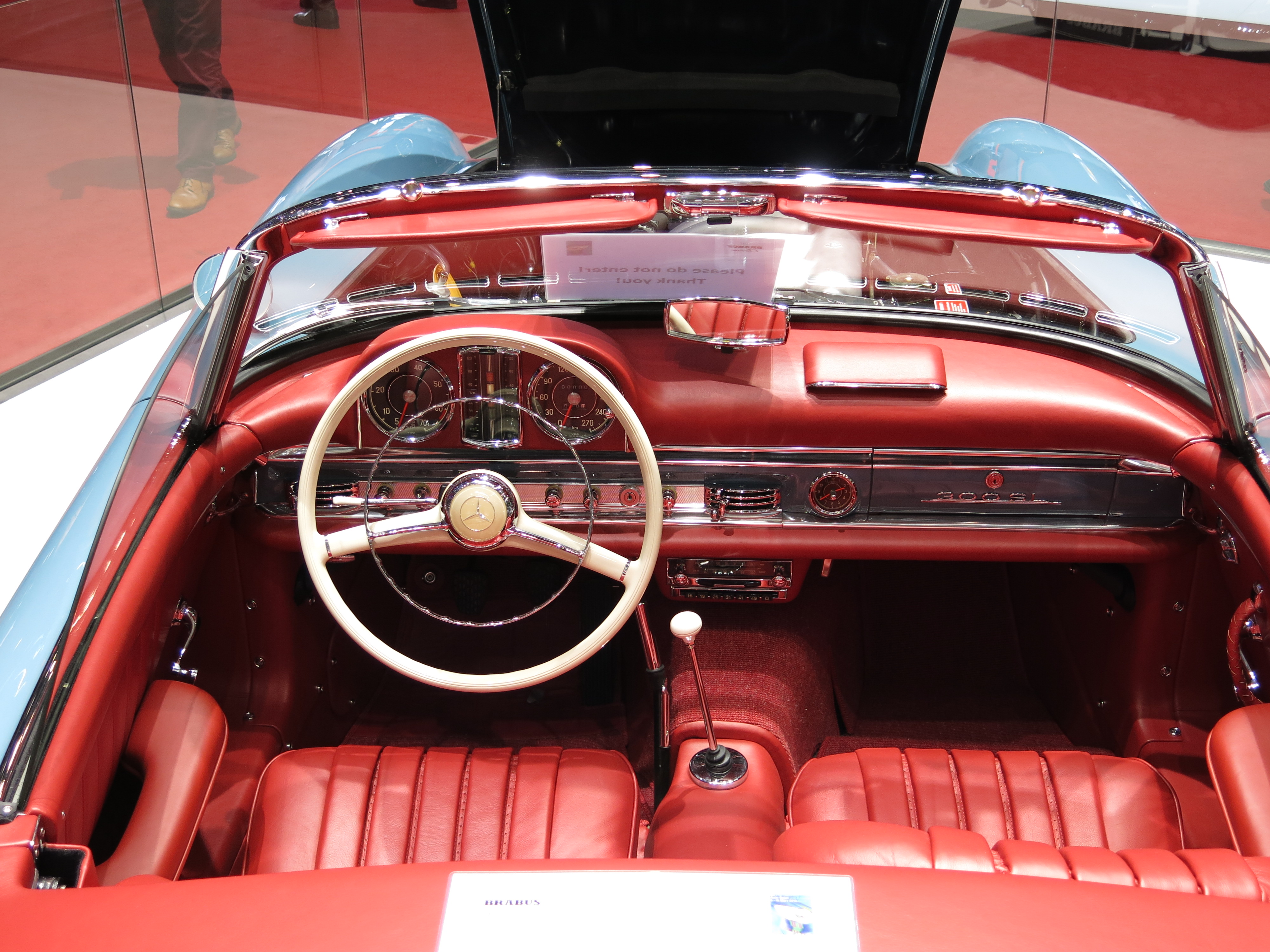 Geneva Motor Show 2015 (photo taken on the first press day)